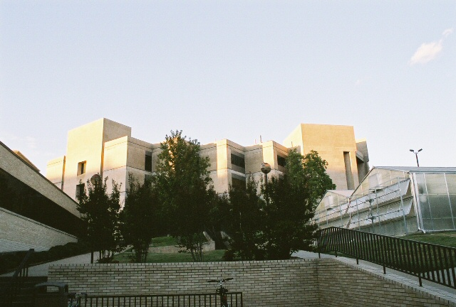 The Bell Engineering Center of the University of Arkansas in Fayetteville, Arkansas (seen from across Dickson Street.)